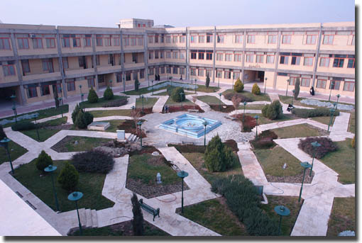 Shahed University_ Overview of Managment College